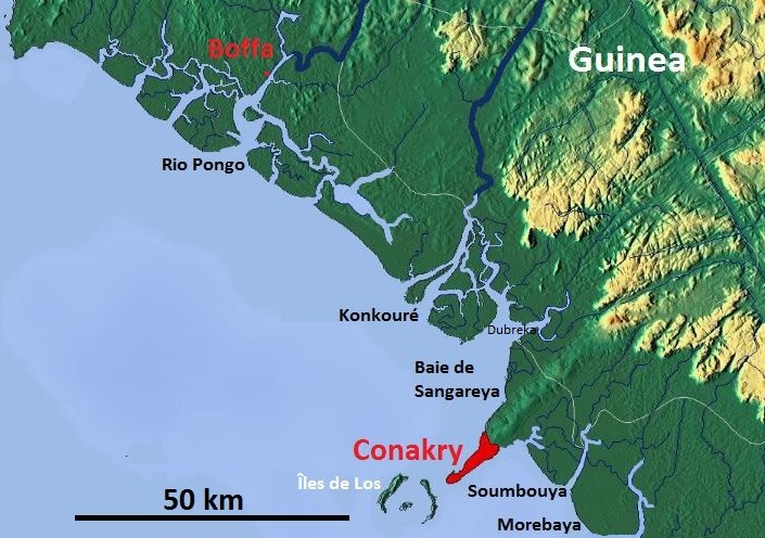 OSM of the coast of Guinea with the Rivers